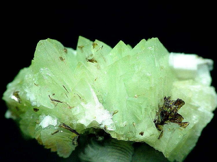 Genthelvite Locality: Poudrette quarry (Demix quarry; Uni-Mix quarry; Desourdy quarry), Mont Saint-Hilaire, Rouville RCM, Montérégie, Québec, Canada (Locality at ) A remarkable specimen of unusually large Genthelvite crystals to over 1 cm, with rich translucent grass-green color! Unusually attractive display-quality example of this often-earthy and ugly mineral species, PLUS it is of significant size and quality - what better combo is there?! 2 x 1.3 x 1.2 cm